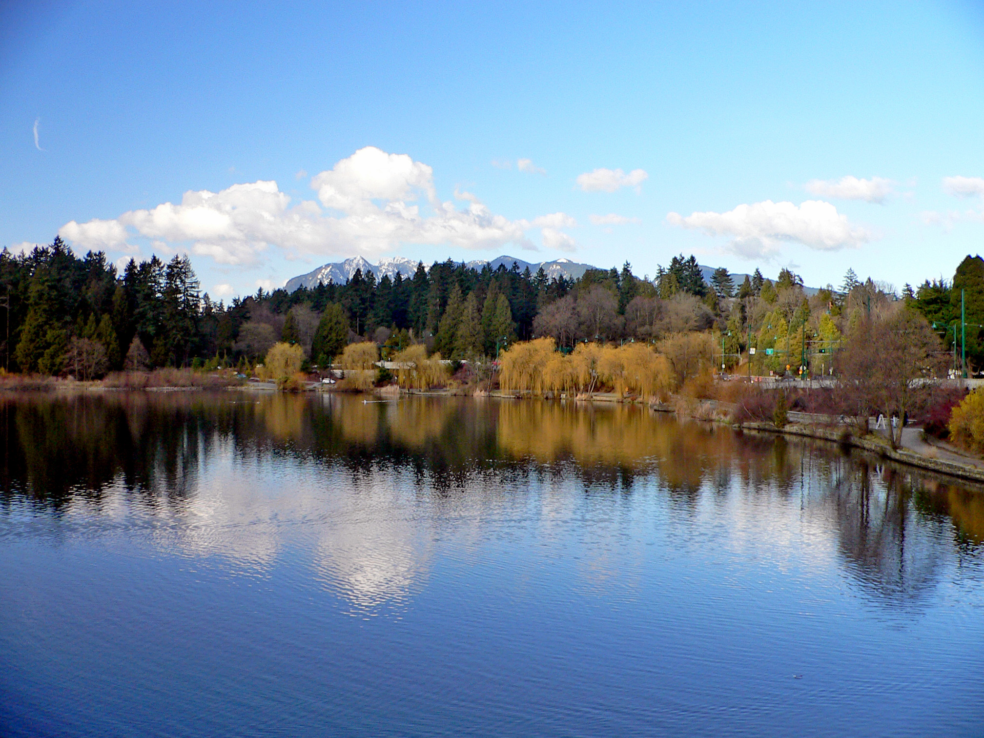 Photo of a lagoon at Stanley Park.